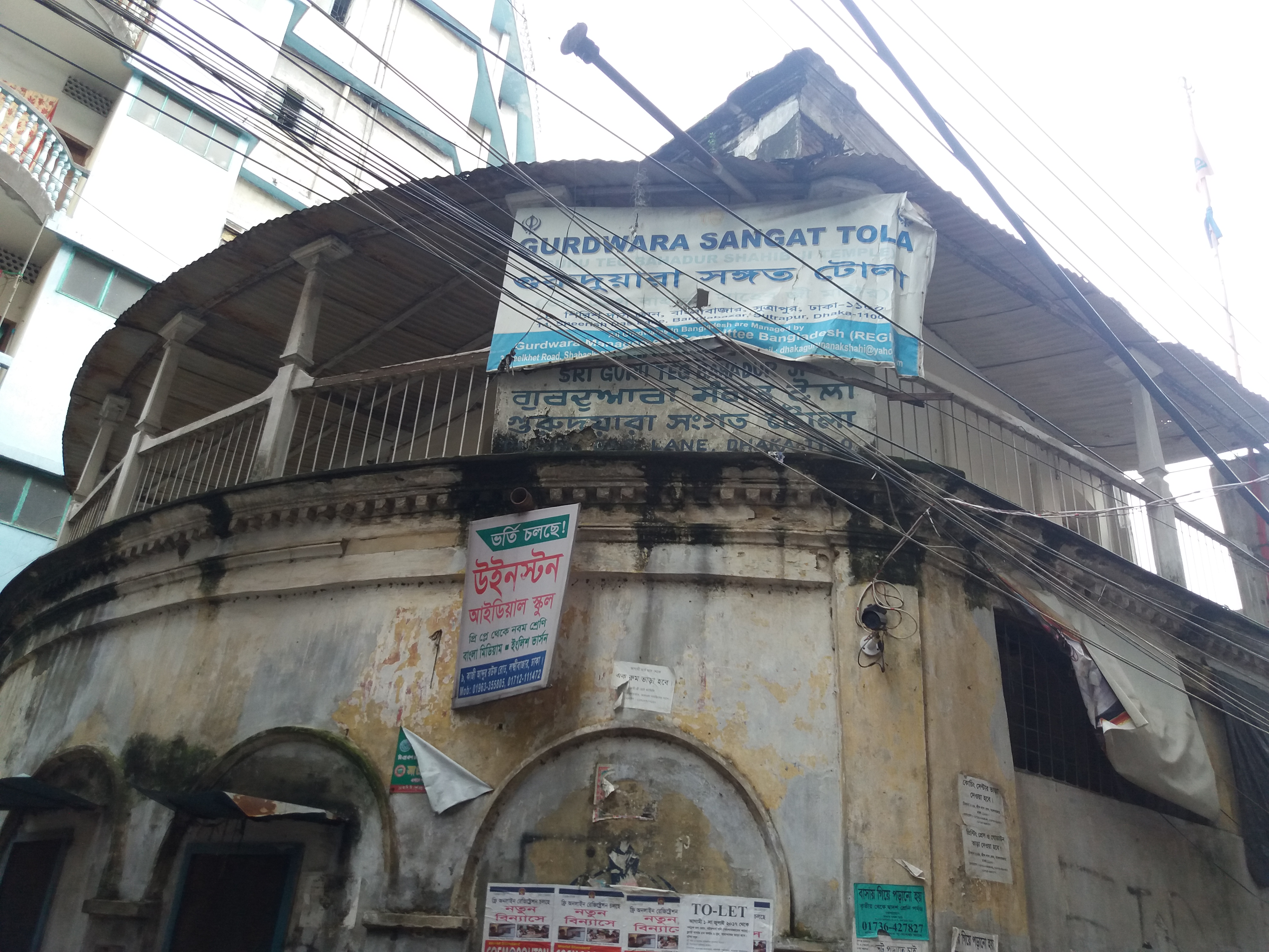 গুরুদুয়ারা সঙ্গতটোলা, ঢাকার বাংলাবাজারে অবস্থিত একটি শিখ উপাসনালয়